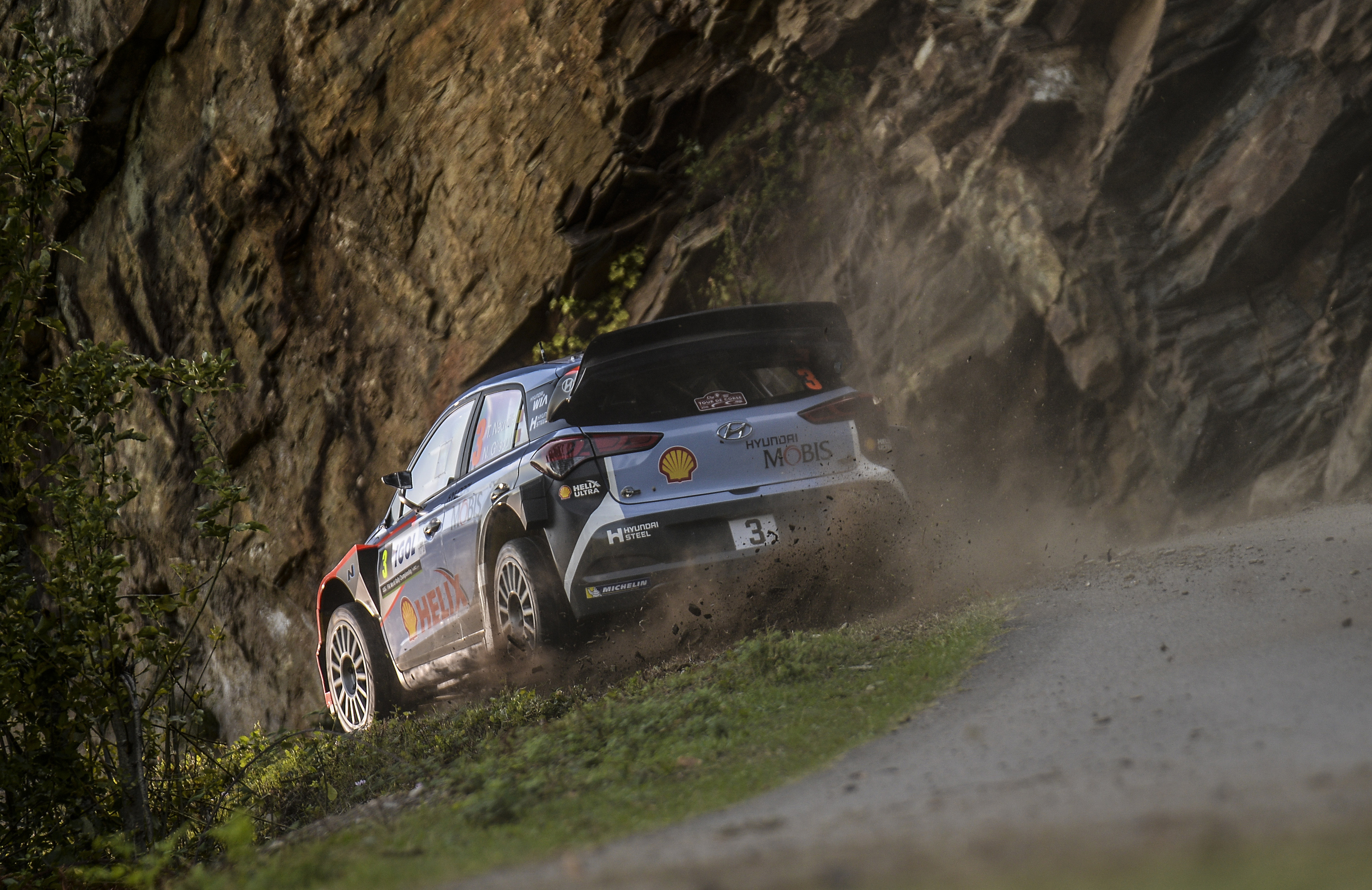 Thierry Neuville and Nicolas Gilsoul in their Hyundai i20 WRC at the 2016 Rally France.